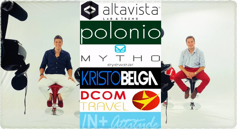 TV Show Ring Rajen